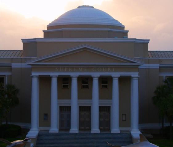 Florida Supreme Court Building